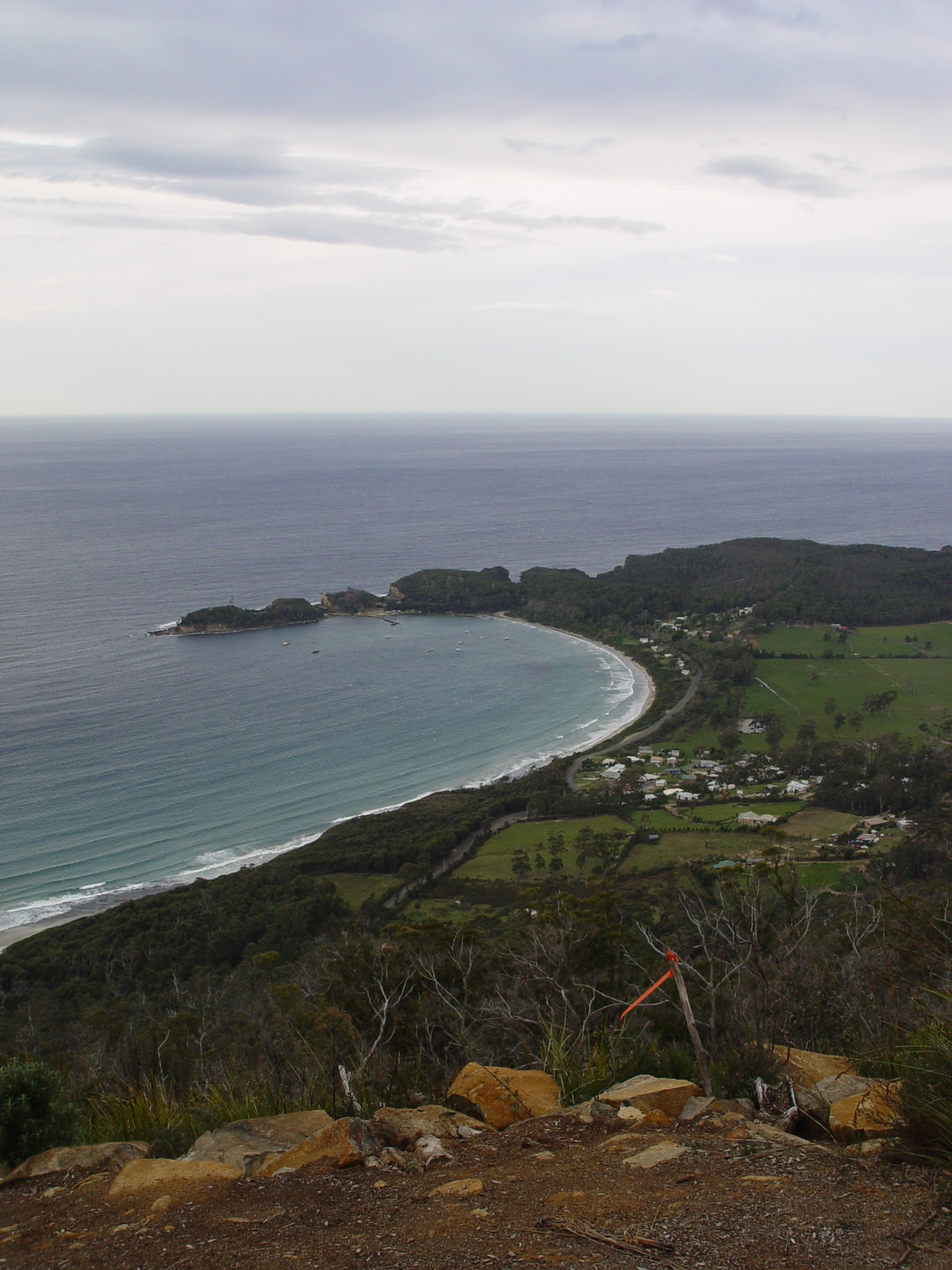 Picture of Pirates Bay & Doo Town at Eaglehawk Neck, Tasmania.